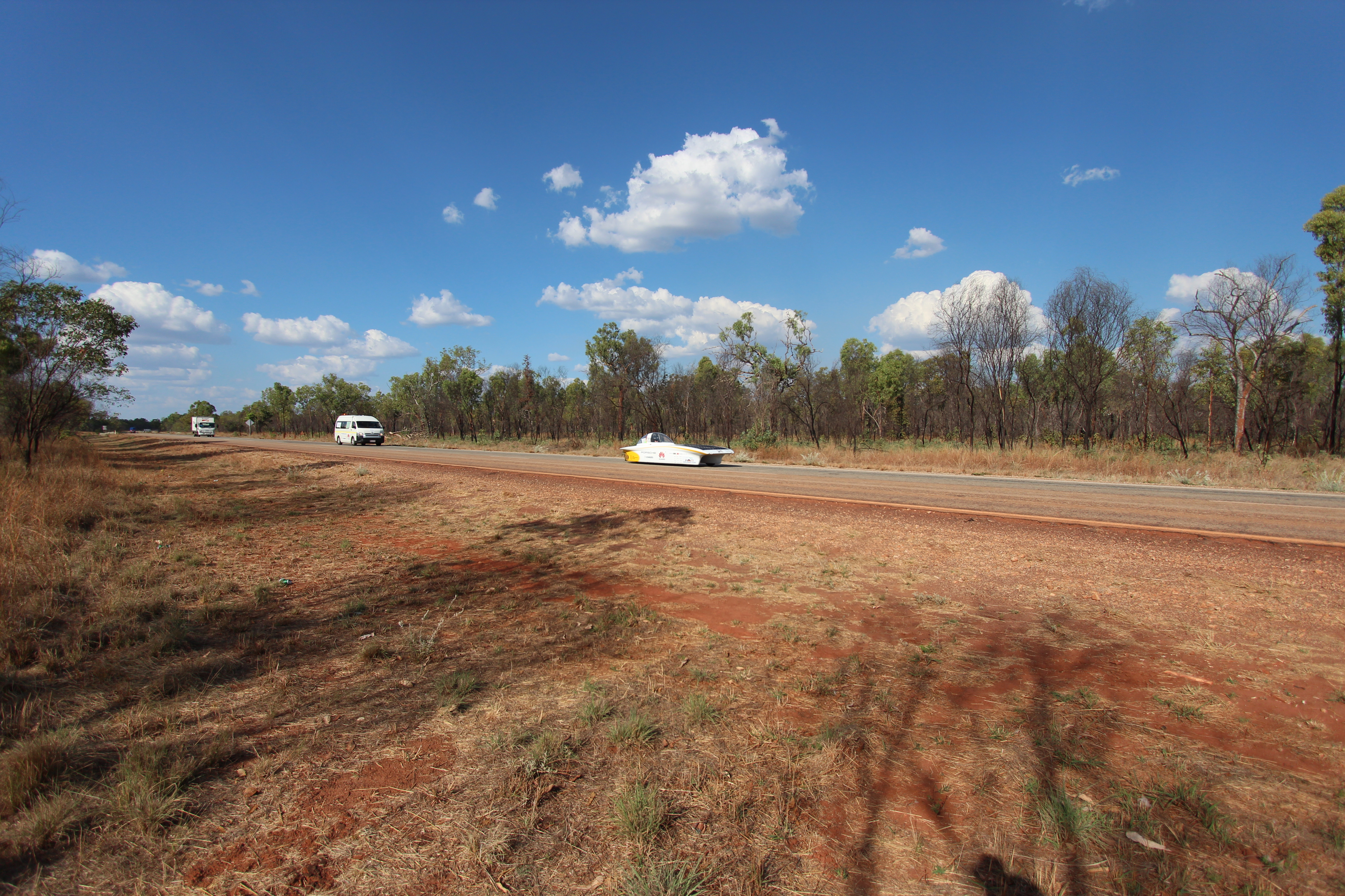 Huawei Sonnenwagen on Stuart Highway during the BWSC2017